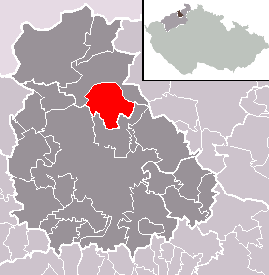 Location of Velké Chvojno municipality within Ústí nad Labem District and administrative area of Ústí nad Labem as a Municipality with Extended Competence.